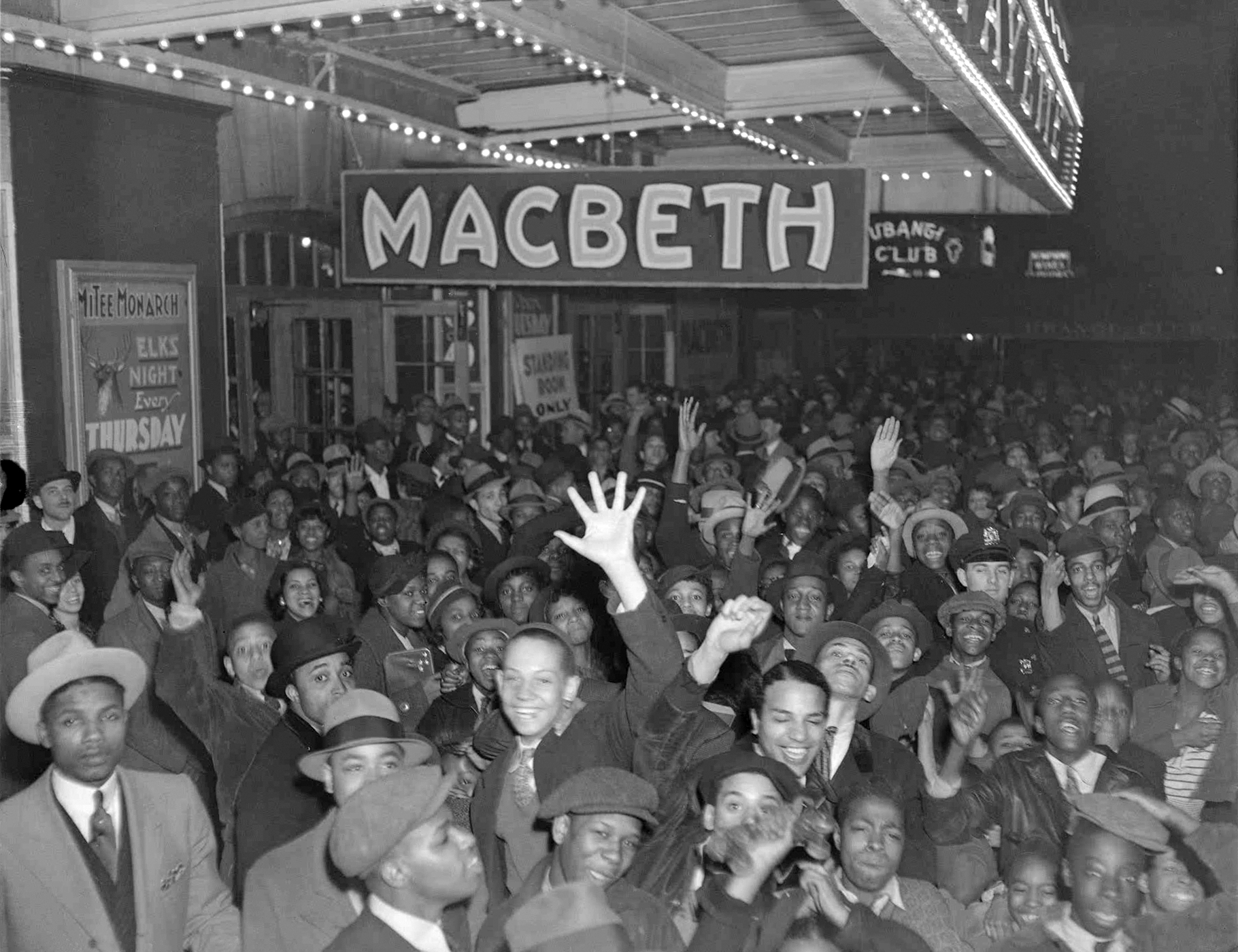 Opening of the Federal Theater Project production of Macbeth at the Lafayette Theatre, Harlem